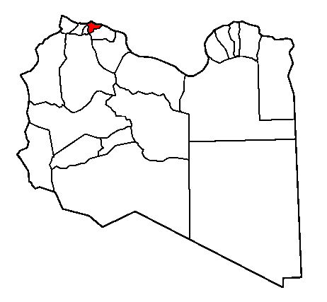 Map of Libya with Tripoli District highlighted